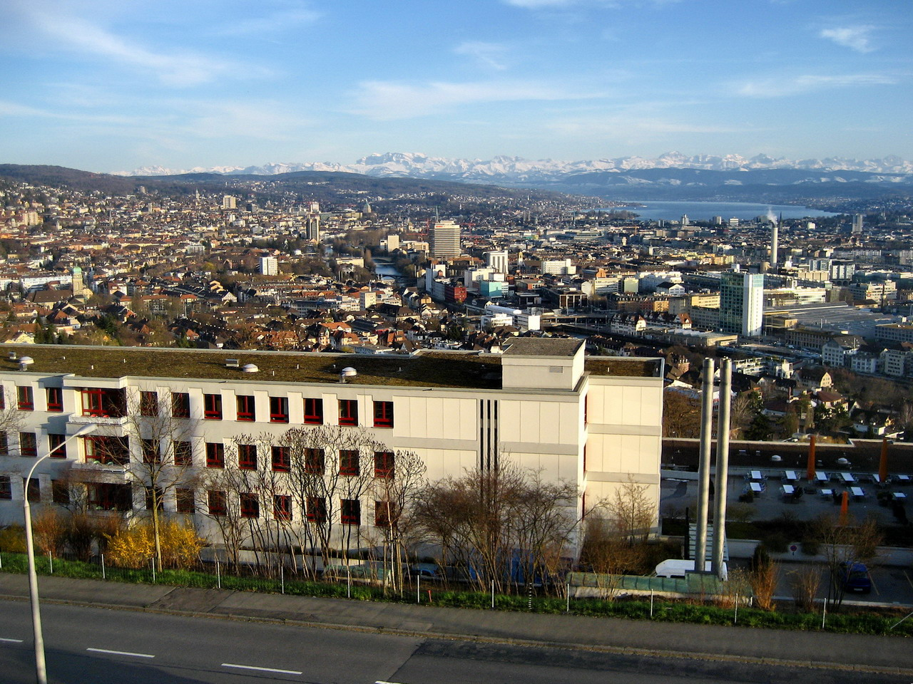 Zurich : City of Zürich, Adlisberg (to the left), Pfannenstiel (in the middle to the left), Zürichsee (Lake Zürich), Zimmberberg (to the right) and Glarus Alps, as seen from Käferberg-Waidberg hills.